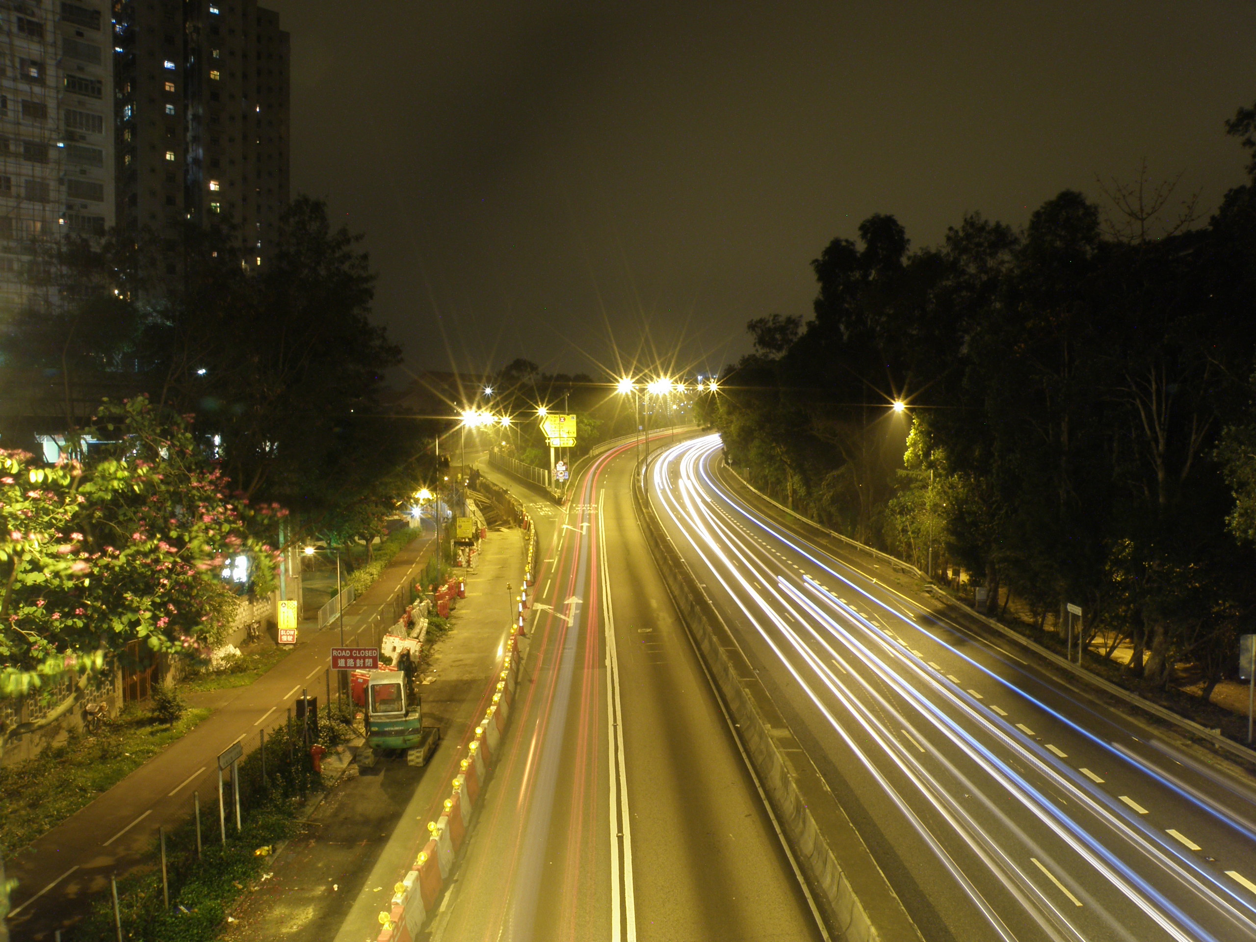 Tai Po Road in Sha Tin, Hong Kong.